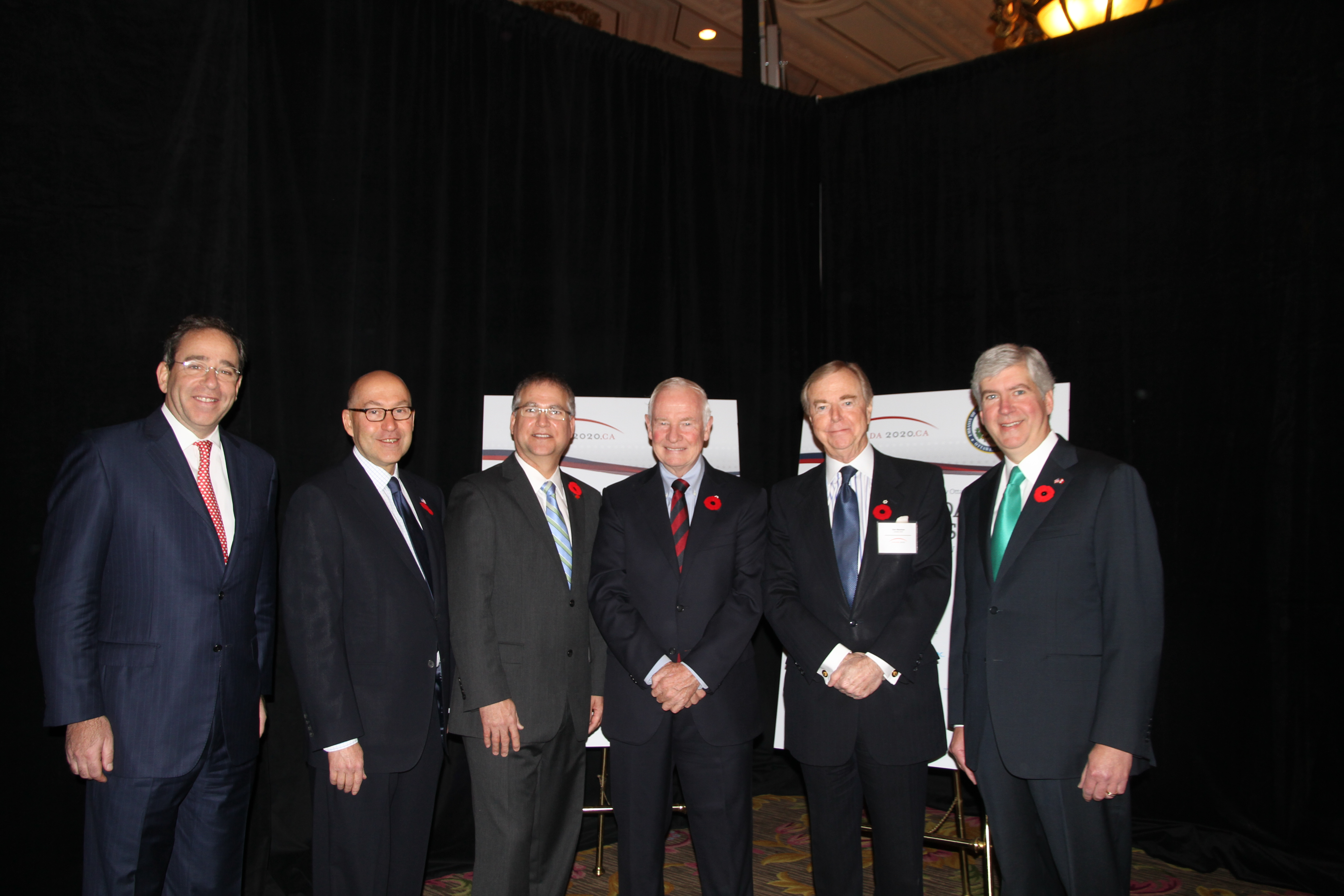 Pictured left to right: U.S. Deputy Secretary of State Thomas Nides, U.S. Ambassador David Jacobson, Minister of State for Science & Technology Gary Goodyear, Governor General David Johnston, Canada2020 Chair Don Newman, Michigan Governor Rick Snyder. The U.S.-Canada Partnership: Enhancing the Innovation Ecosystem On November 1st and 2nd, 2011, the Embassy -- in conjunction with Canada 2020 -- hosted a conference on innovation and entrepreneurship at the Chateau Laurier in Ottawa. Visit the U.S. Embassy Ottawa's website or Canada2020 for more information.